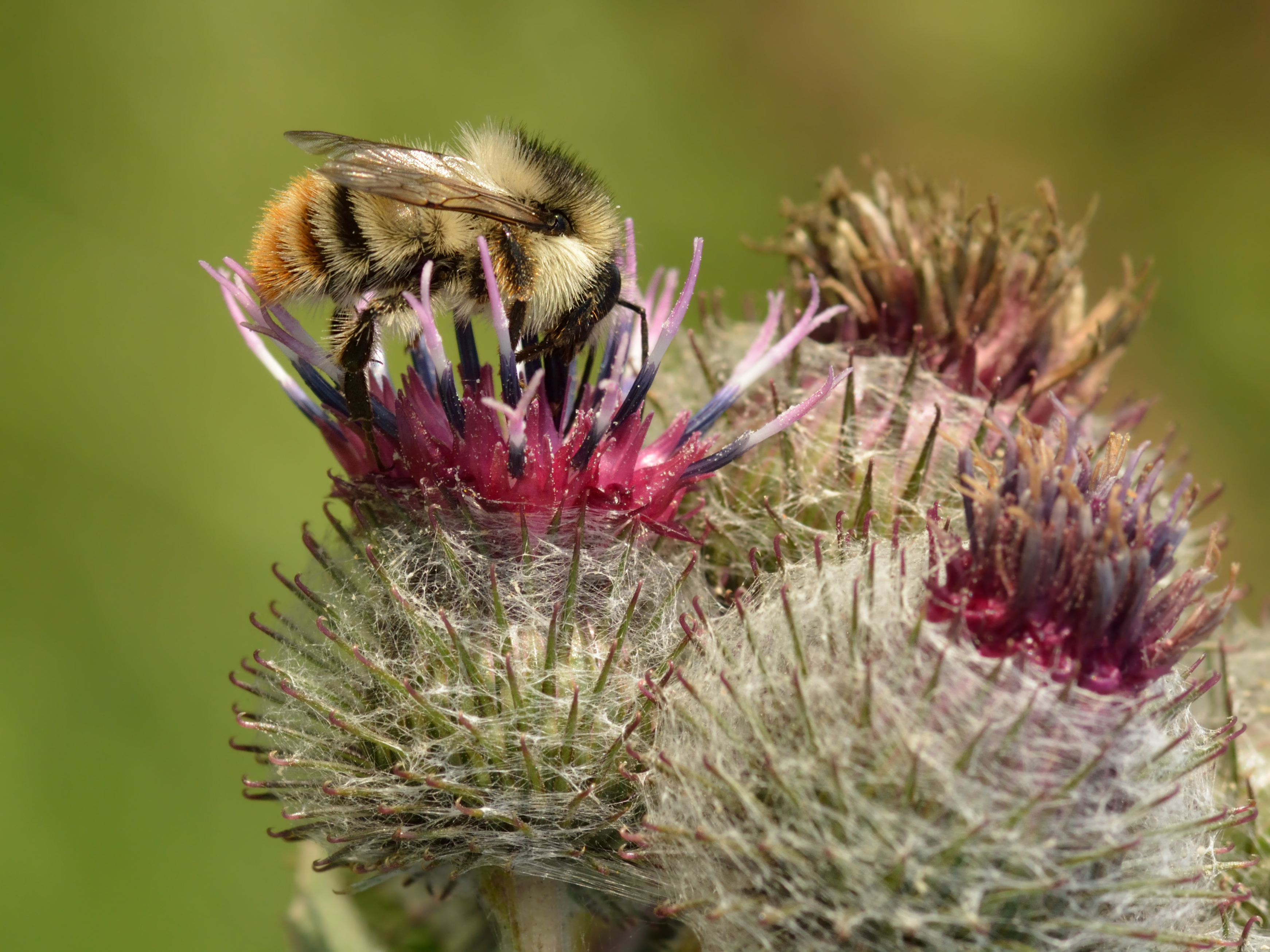 Shrill carder bee (Bombus sylvarum) on the downy burdock (Arctium tomentosum). Keila, Northwestern Estonia.